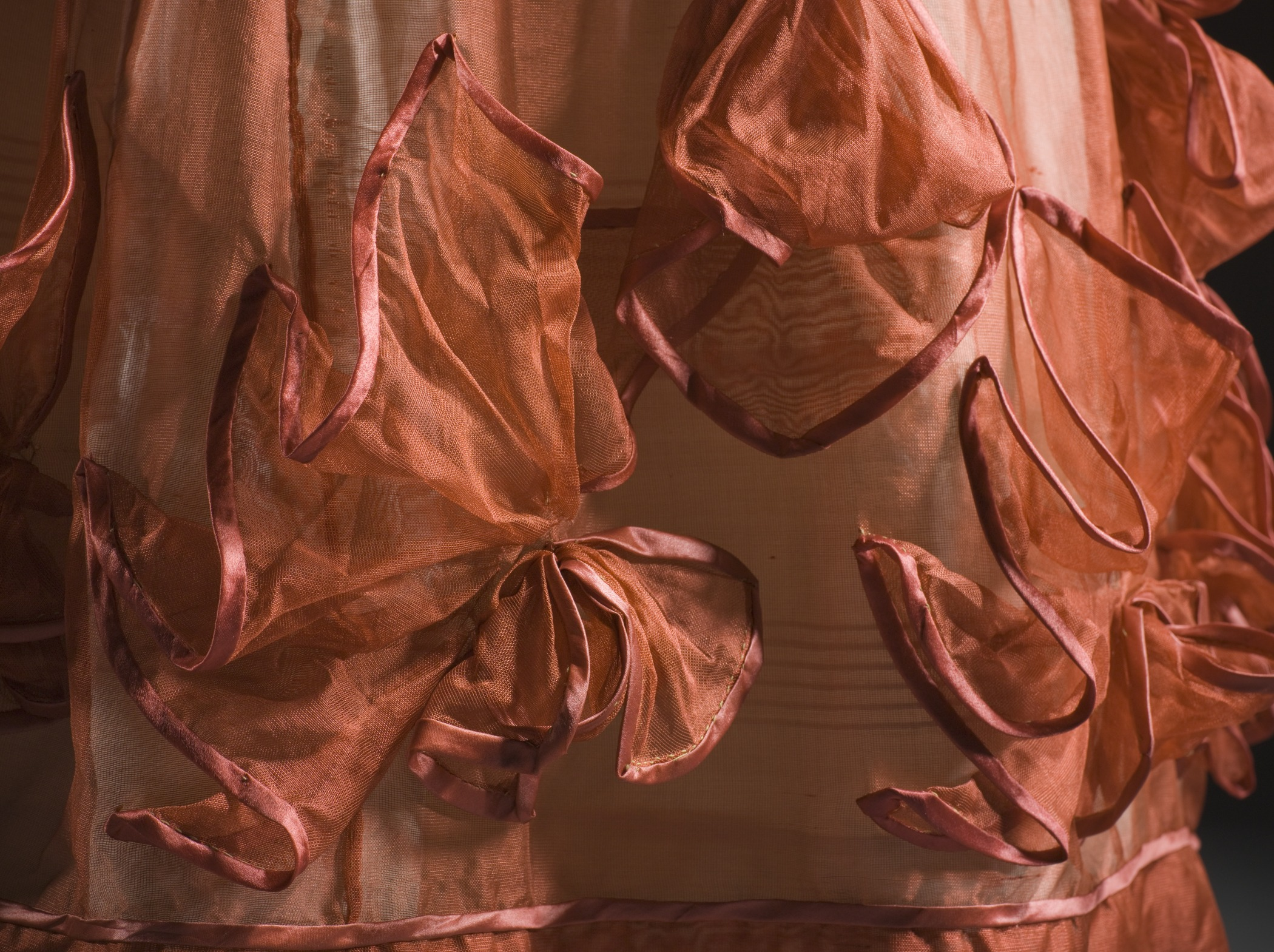 England, circa 1827 Costumes; principal attire (entire body) Silk plain weave (aeophane); silk satin lining and metal hooks and eyes; silk satin undersleeves with lace trim. Purchased with funds provided by Suzanne A. Saperstein and Michael and Ellen Michelson, with additional funding from the Costume Council, the Edgerton Foundation, Gail and Gerald Oppenheimer, Maureen H. Shapiro, Grace Tsao, and Lenore and Richard Wayne (M.2007.211.939) Costume and Textiles